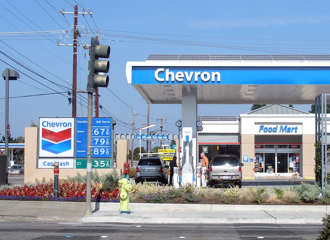 A gas station in Chevron Corporation's new trade dress in Redwood City. Note the solar panels on the station canopy and store roof.